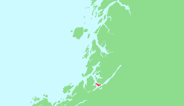 Locator map of Øksninga, Nordland, Norway